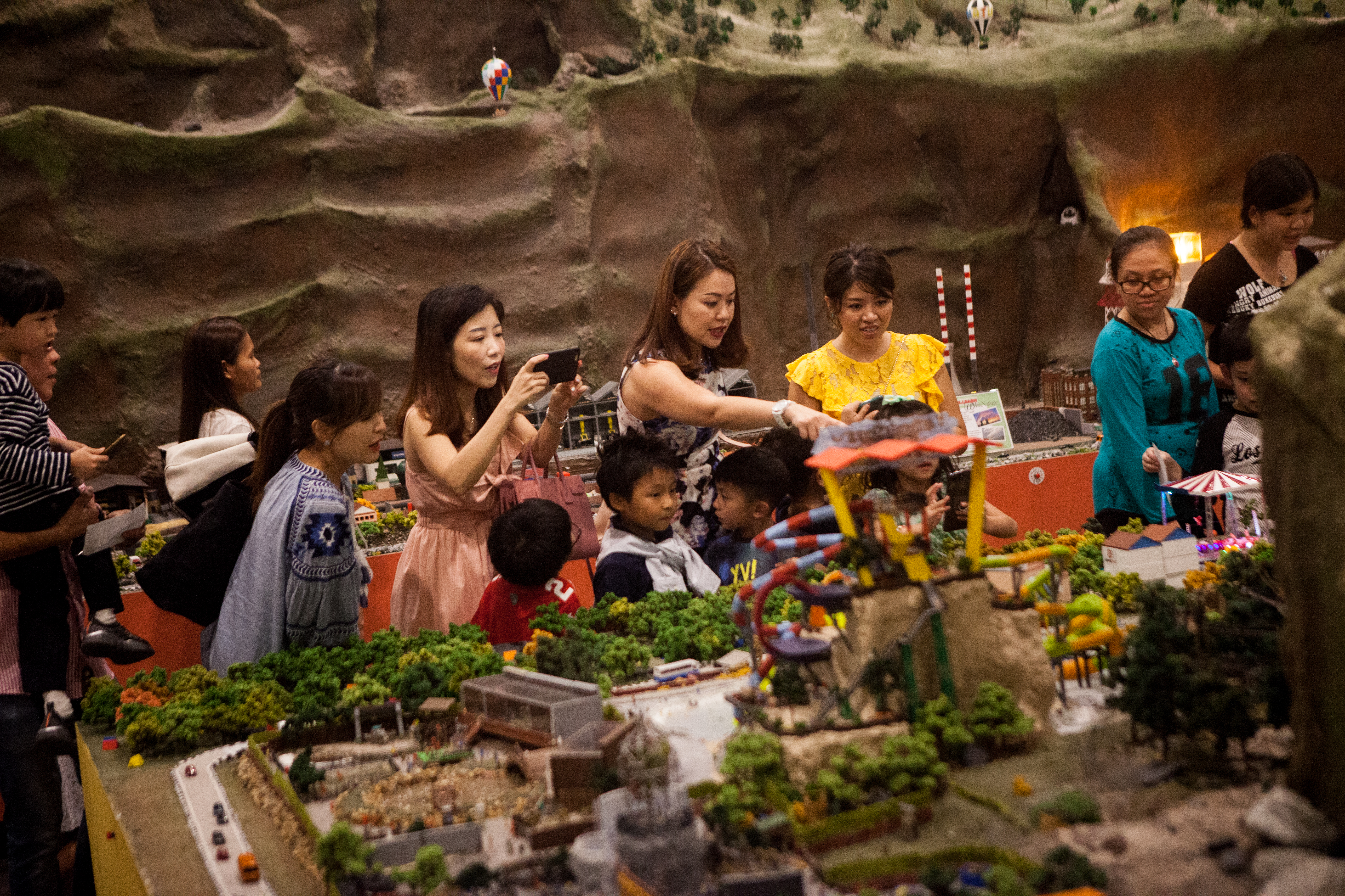 Family enjoying MinNature treasure hunt